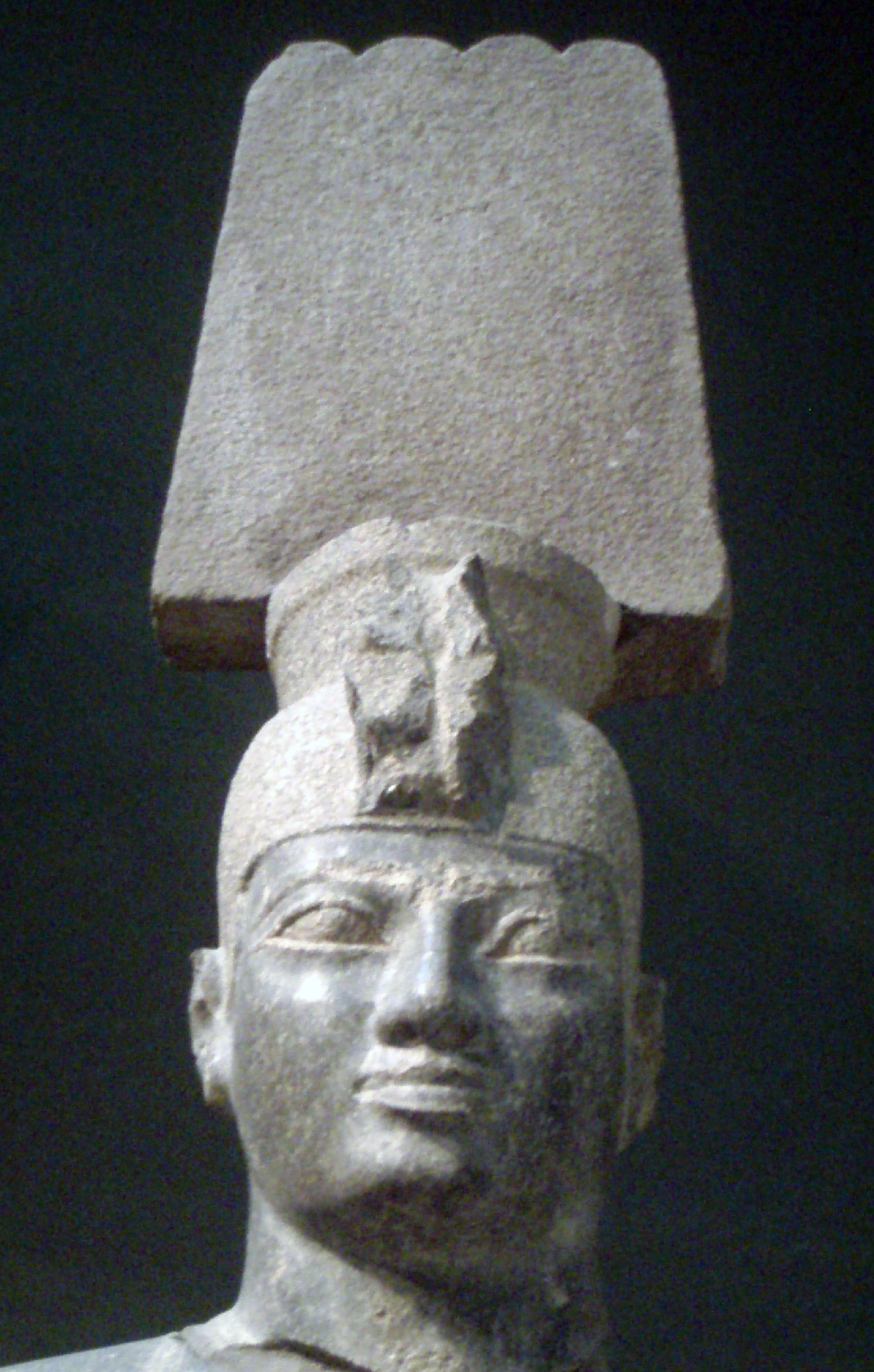 Close-up of the statue head of the Kushite pharaoh Aspelta, made during the Napatan period, circa 620-580 B.C. Made of granite gneiss. Originally in the Great Temple of Amen at Gebel Barkal in what is now Sudan, now residing in the Museum of Fine Arts, Boston.